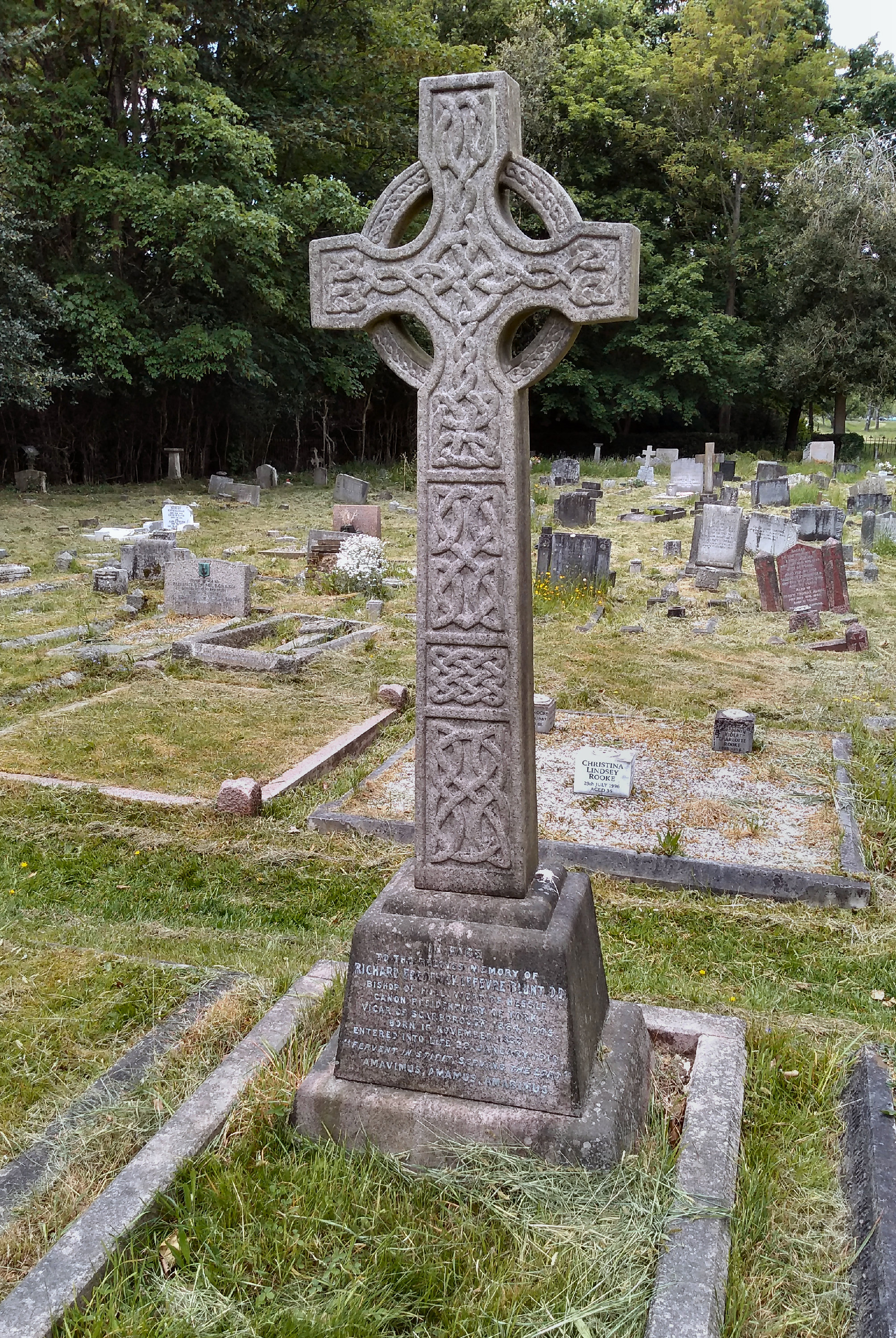 St Andrew's Church, Ham. Richard Frederick Lefevre Blunt was the first Anglican Bishop of Hull in the modern era; and served from 1891 until his death in 1910.